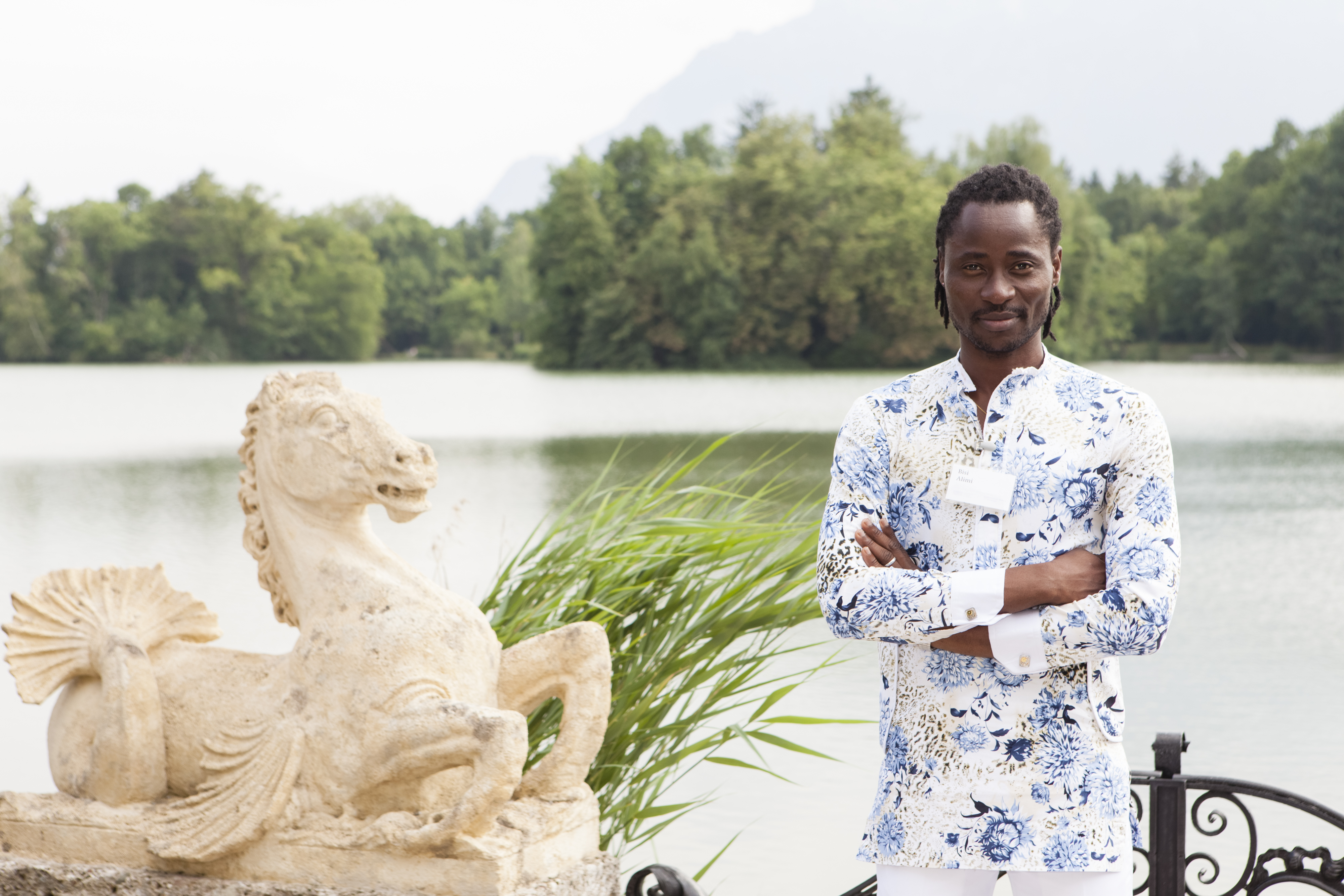 The picture is a collection from the Salzburg Global Seminar June Board meeting